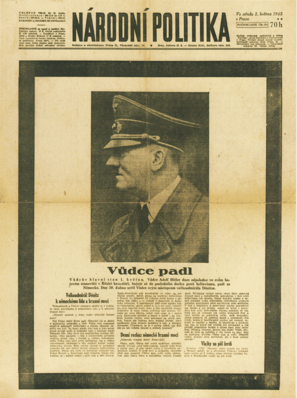 The leader fell! Notice protektorate Czech newspapers on the death of Adolf Hitler.